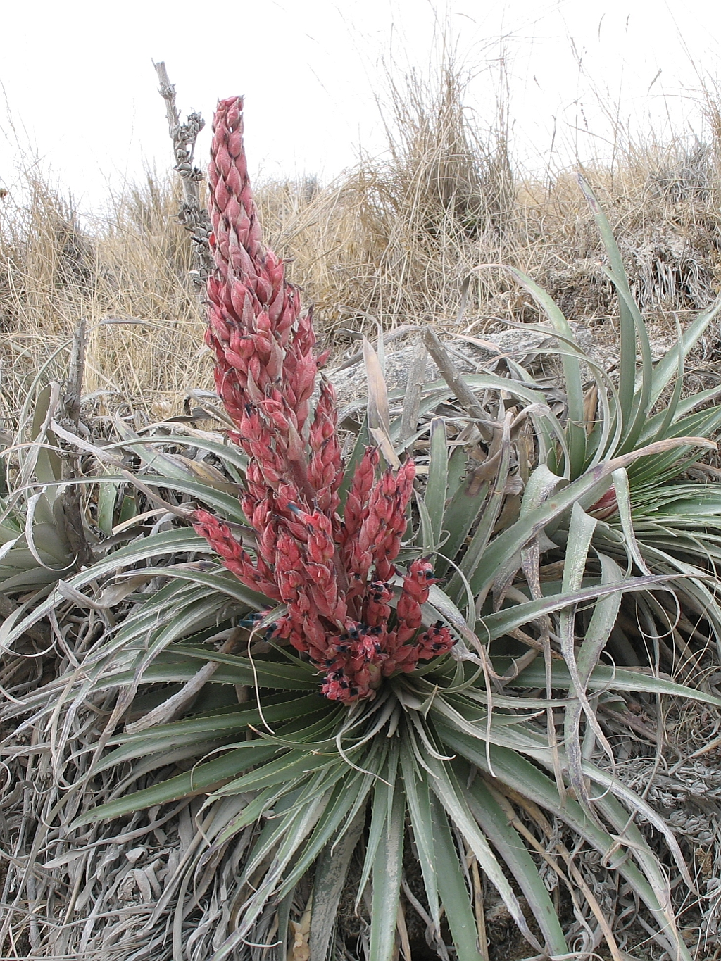 Puya dyckioides, in habitat in Bolivia, exact location unknown.